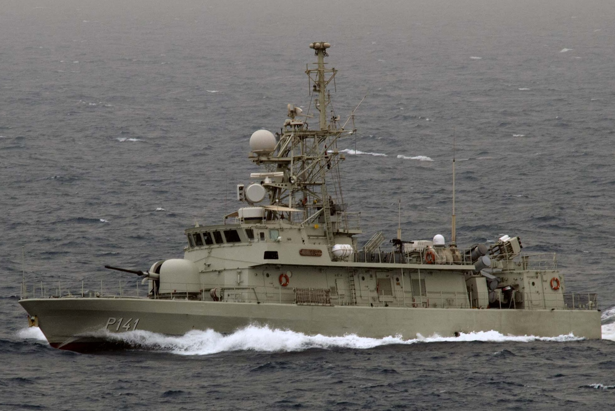 crop of 130521-N-GZ984-250 U.S. 5th FLEET AREA OF RESPONSIBILITY (May 21, 2013) The United Arab Emirates navy fast attack craft Mubarraz (P141) participates in International Mine Countermeasures Exercise (IMCMEX) 13 with Combined Task Force (CTF) 523. IMCMEX 13 is the largest exercise of its kind in the region and will exercise a wide spectrum of defensive operations designed to protect international commerce and trade; mine countermeasures, maritime security operations (MSO) and maritime infrastructure protection.